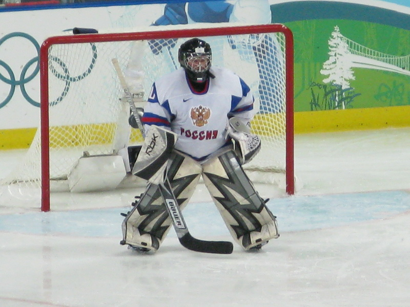 Russia goaltender Maria Onolbayeva watches the action against China during the 2010 Winter Olympics